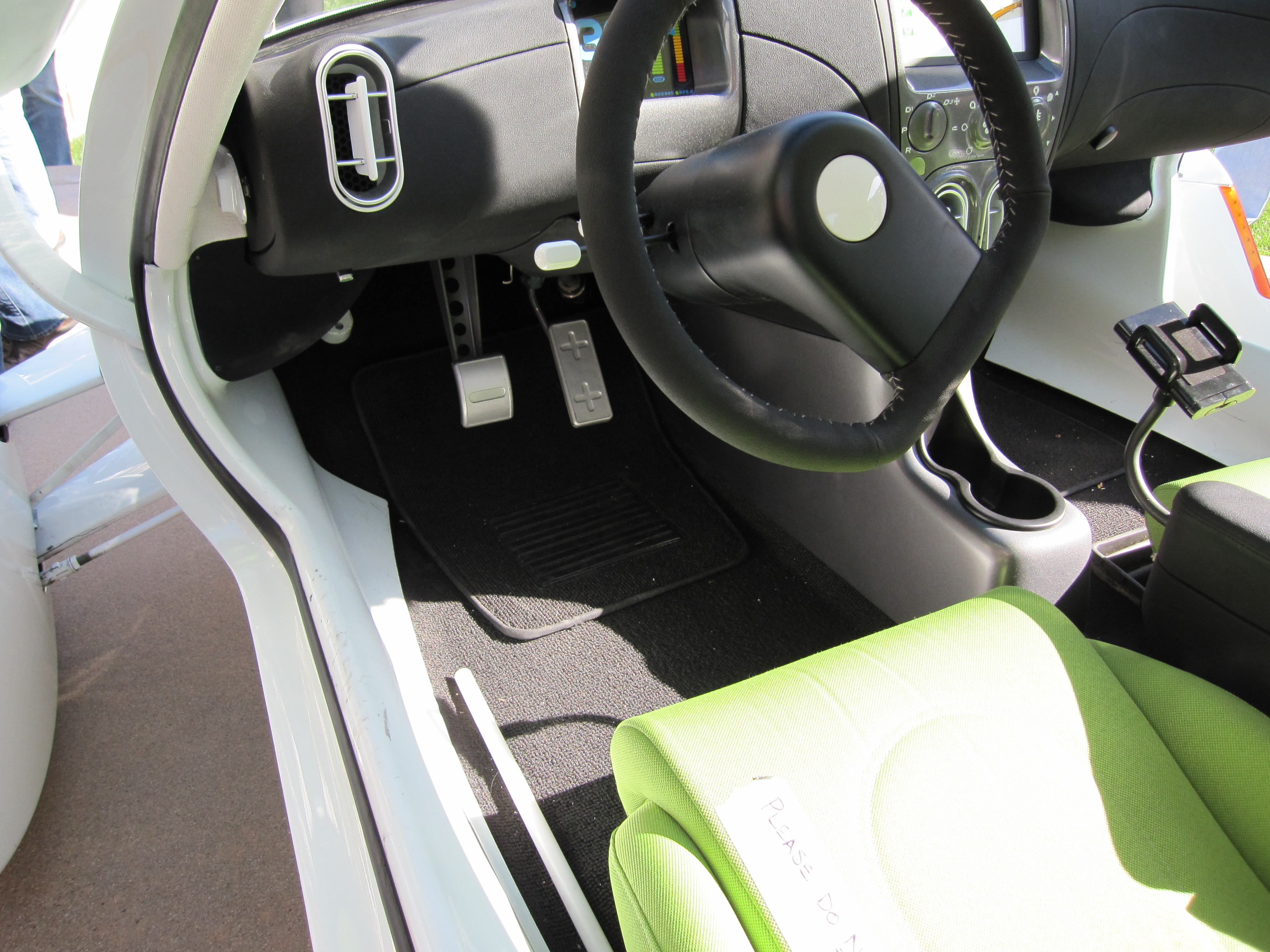 Interior of the new Aptera electric vehicle, scheduled for production some time in 2009.